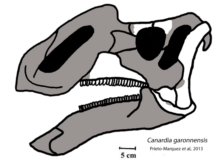 Reconstructed skull of Canardia Prieto-Marquez et al., 2013. This skull is based upon File:Aralosaurus skull.png for the unknown material, and the figures of Prieto-Marquez et al. (2013) for known material. References:* Prieto-Márquez, A.; Dalla Vecchia, F.M.; Gaete, R.; Galobart À. (2013). "Diversity, Relationships, and Biogeography of the Lambeosaurine Dinosaurs from the European Archipelago, with Description of the New Aralosaurin Canardia garonnensis". PLoS ONE 8(7): e69835.